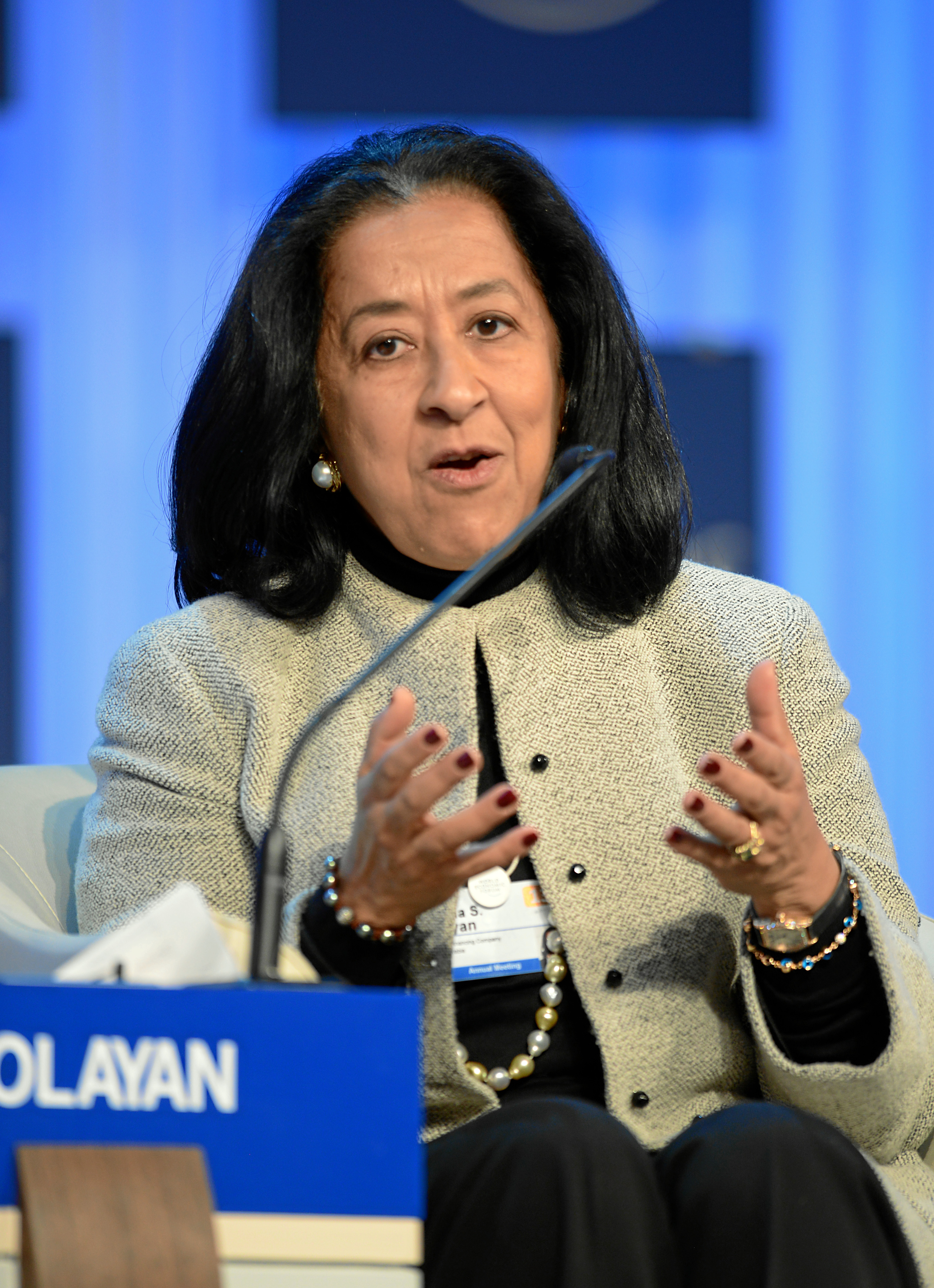 DAVOS/SWITZERLAND, 25JAN13 - Lubna S. Olayan, Deputy Chairperson and Chief Executive Officer, Olayan Financing Company, Saudi Arabia makes a point during the session 'Women in Economic Decision-making' at the Annual Meeting 2013 of the World Economic Forum in Davos, Switzerland, January 25, 2013. . . Copyright by World Economic Forum. . Michael Wuertenberg